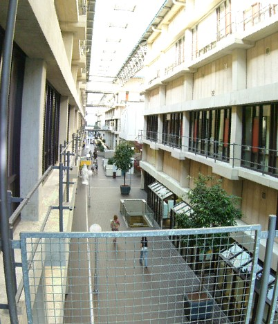 The Academic Medical Center (University of Amsterdam). Interior.